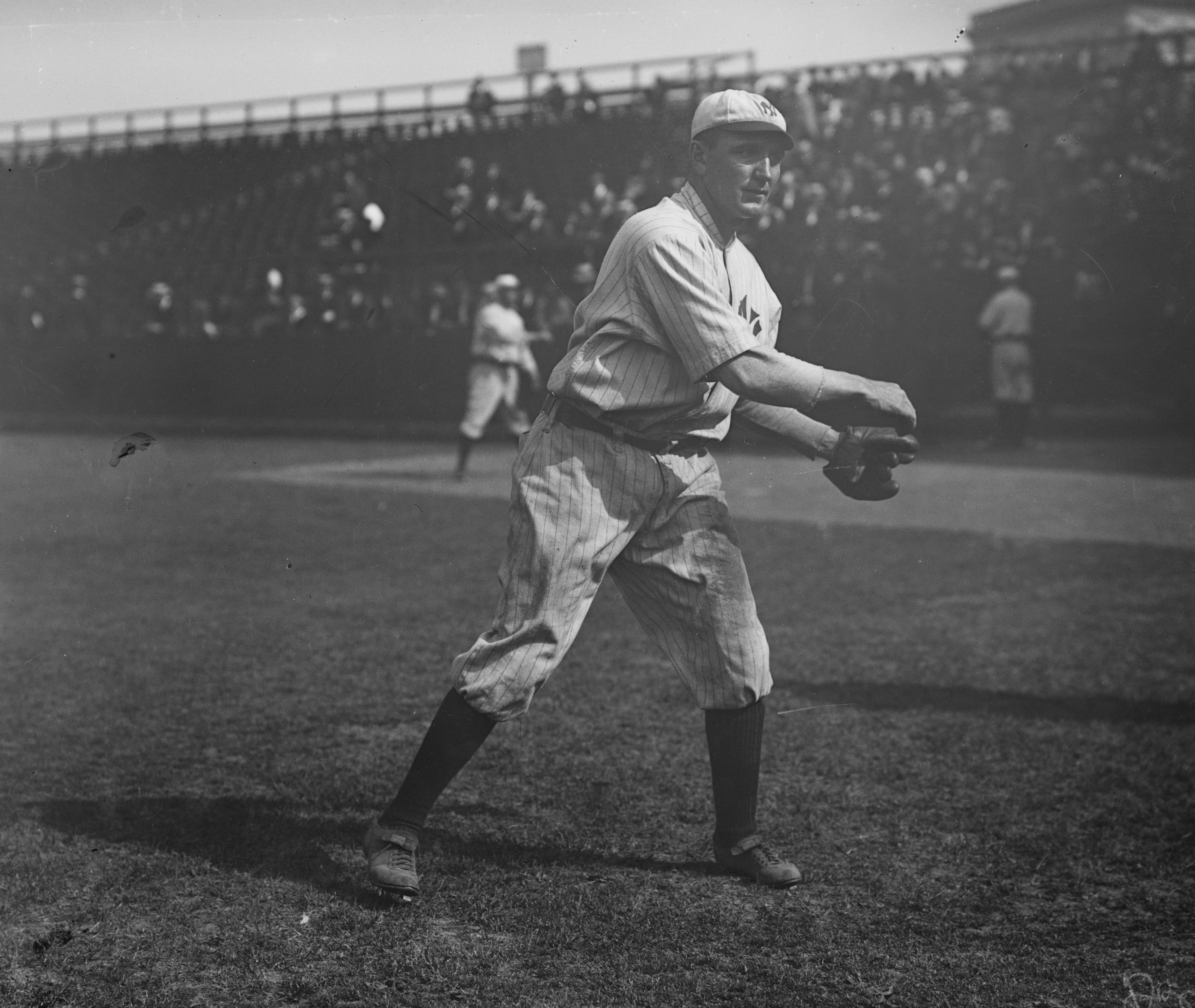 Albert "Cozy" Dolan at Hilltop Park, NY, New York AL (baseball)" .